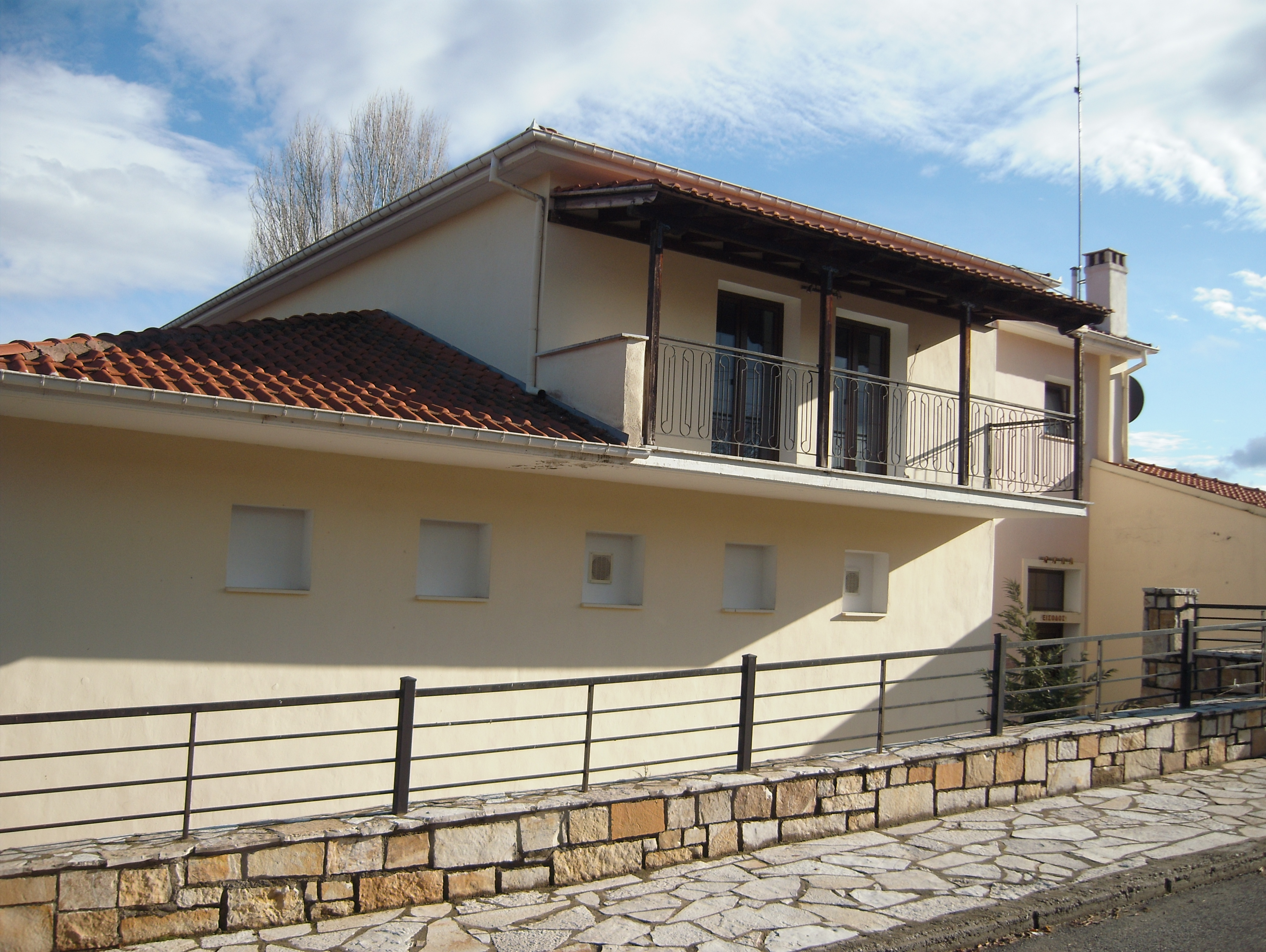 Nestime / Nostimo